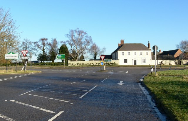 Fosse Way towards High Cross Two former Roman Roads, the Fosse Way and Watling Street (the A5), meet up at High Cross, the former site of Venonis Roman Settlement. This also marks the border of Warwickshire and Leicestershire.